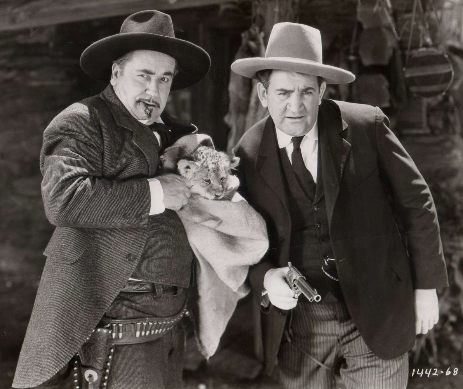 Noah Beery, Sr. (left) and Tom Kennedy in the American film Man of the Forest (1933) - publicity still (cropped)